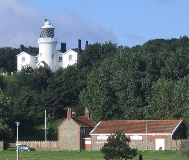 Lowestoft Denes lighthouse. A closer view of 223524.